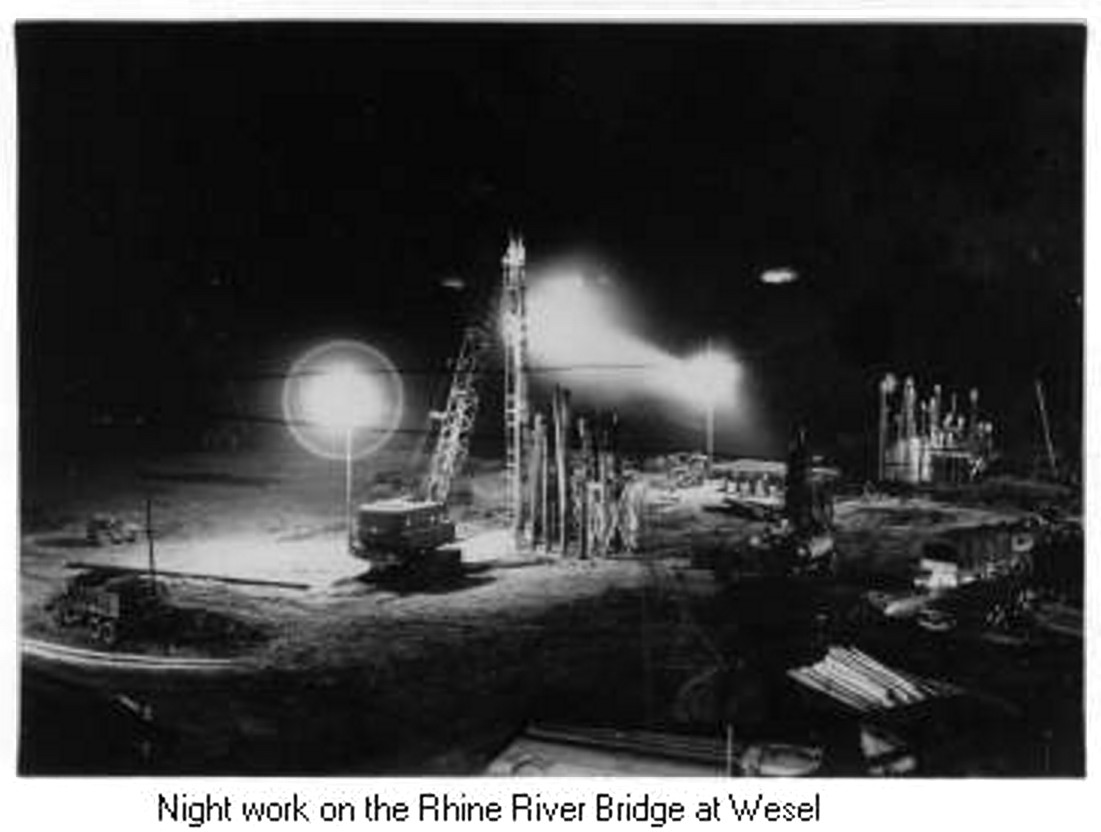 Night work at the Wesel Bridge.